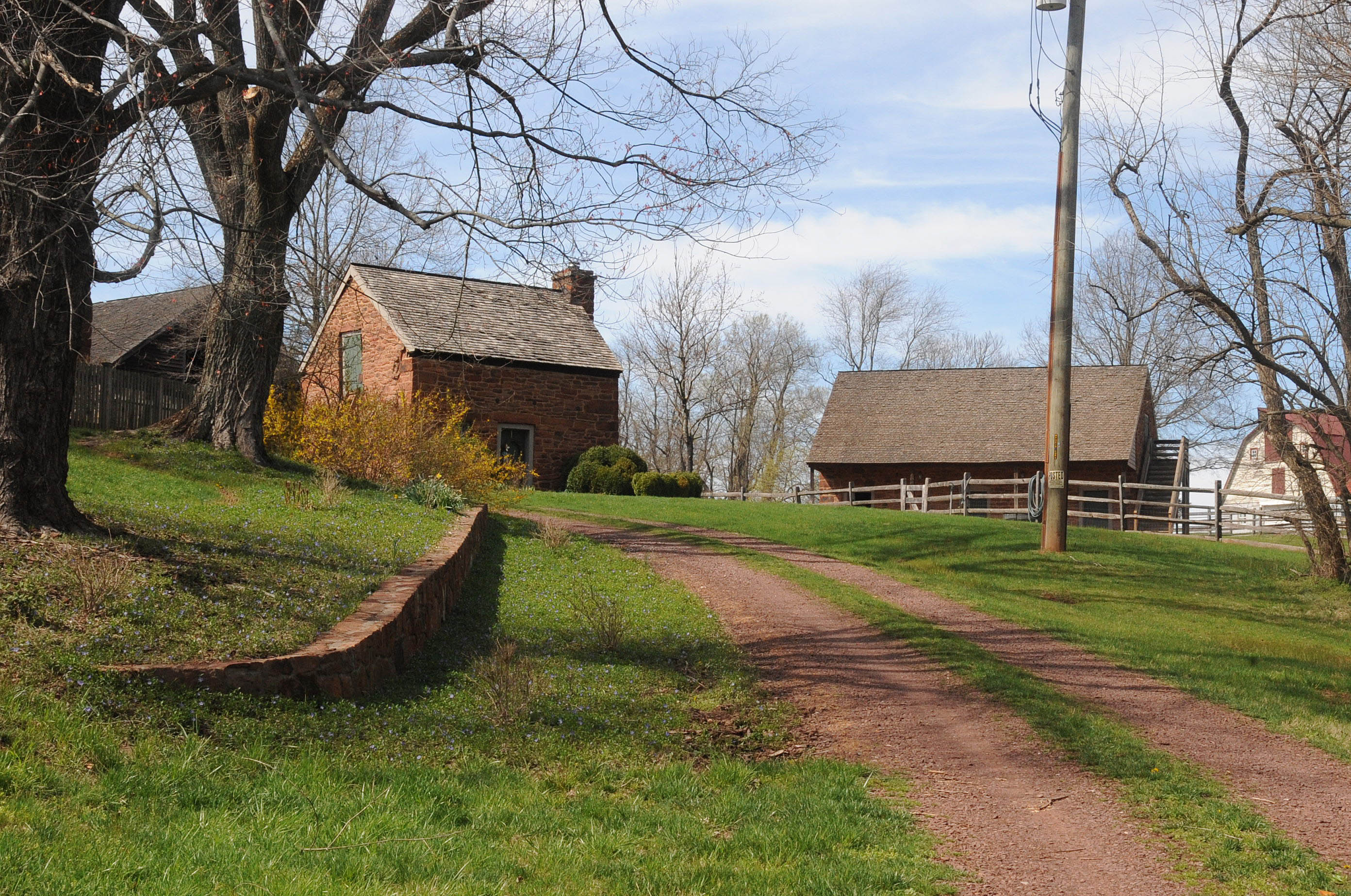 THIS PICTURE SHOWS ONE OF THE SANDSTONE BUILDINGS AND A WAGON SHED